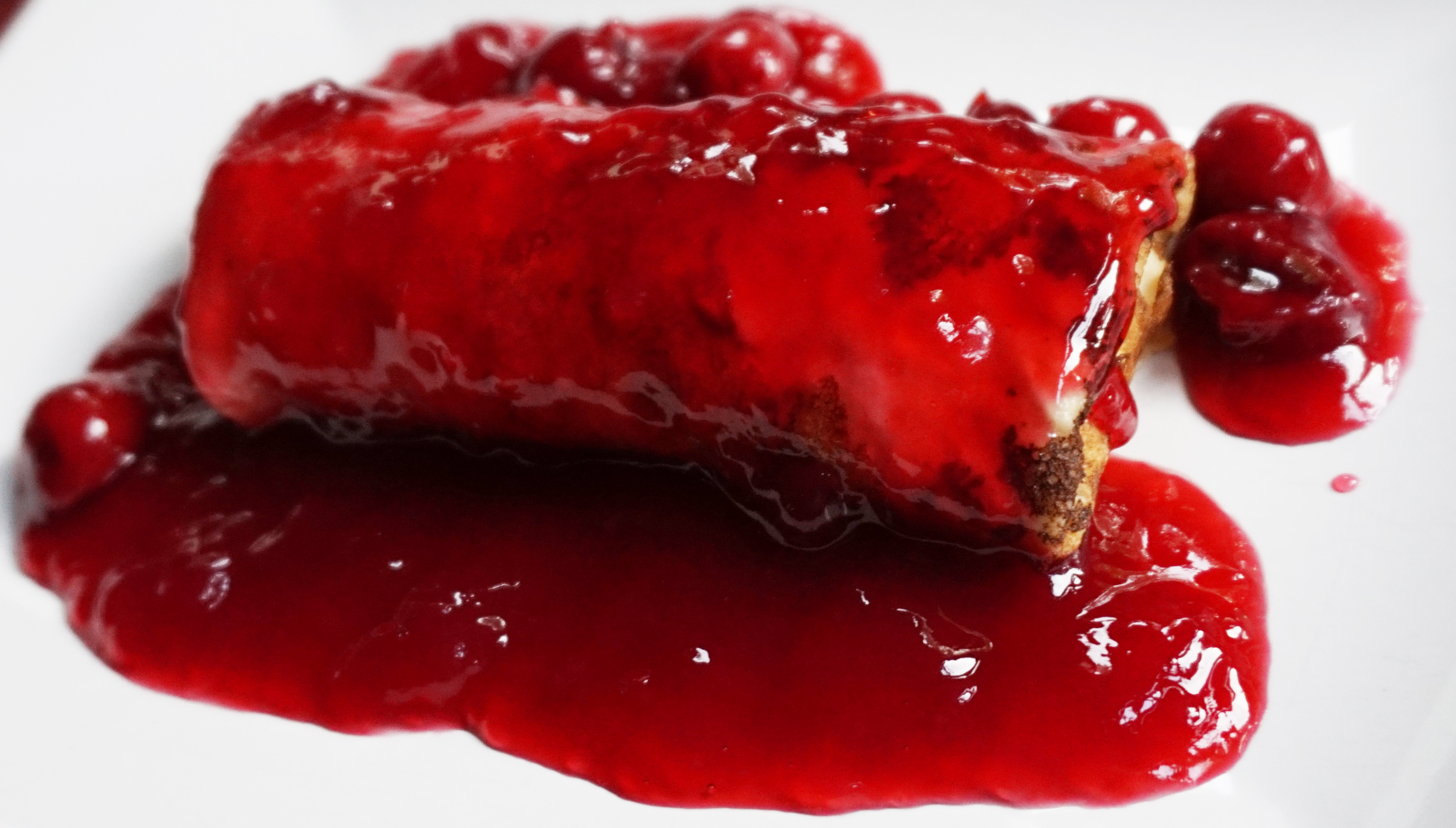 A pancake with jam in a restaurant in Bucharest, Romania. This photograph was taken with a Sony Alpha a5000.